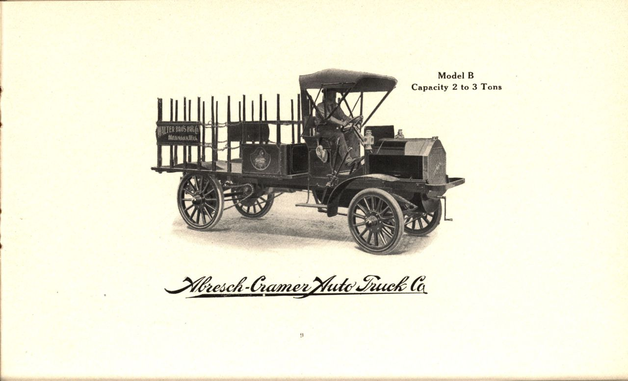 1911 Abresch-Cramer Model B 2-3 tn stake truck This vehicle was pictured in the 1911 Abresch-Cramer truck catalogue